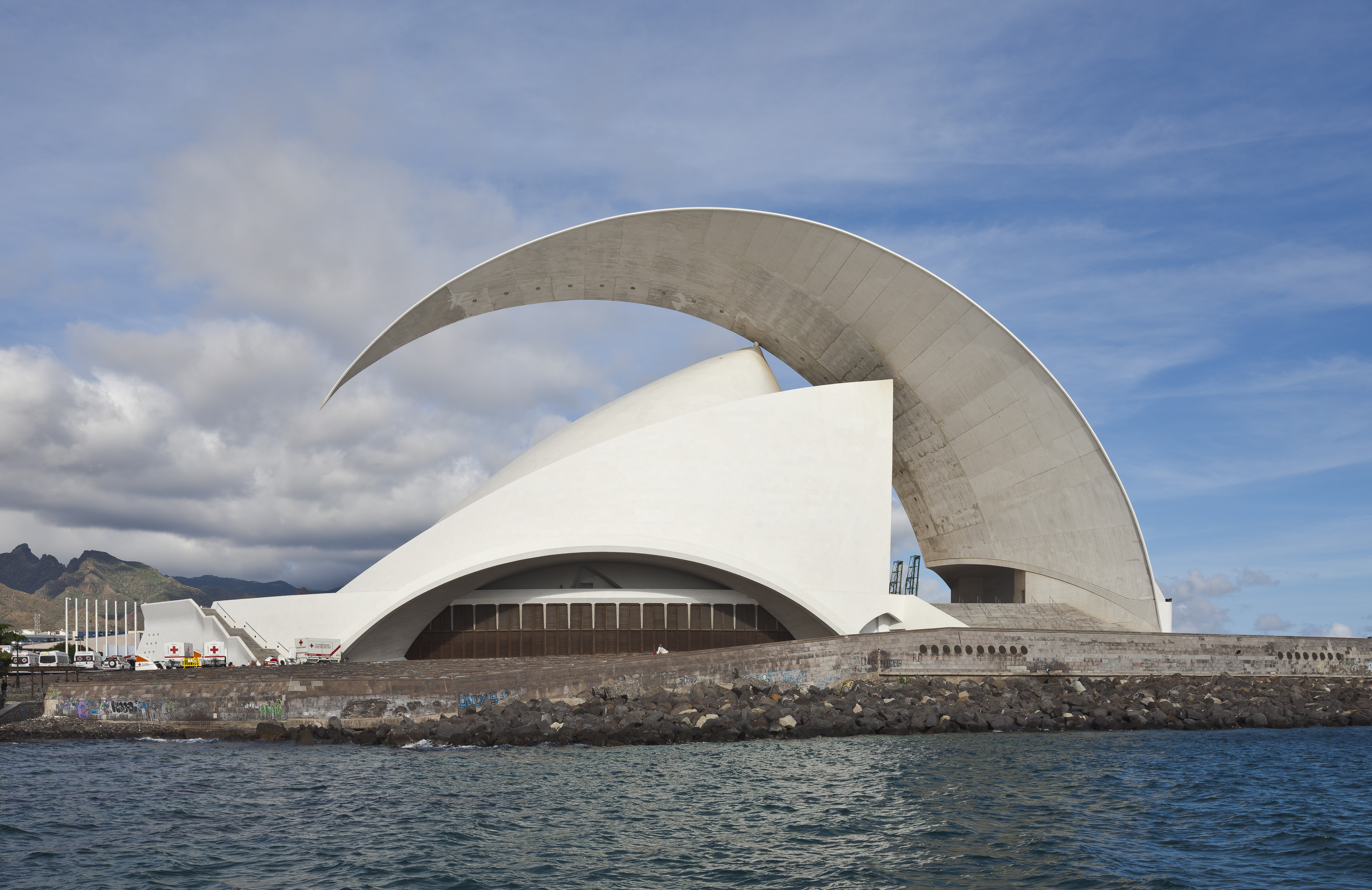 Auditorium of Tenerife, Santa Cruz de Tenerife, Spain